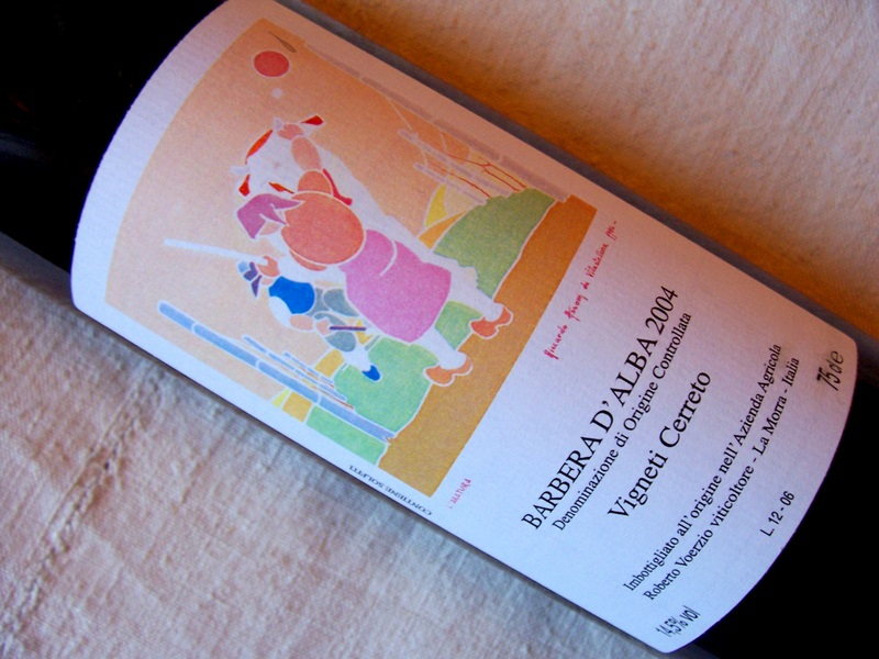 A bottle of the R. Voerzio Barbera d'Alba Vigneti Cerreto 2004 from the Italian wine region of Piedmont